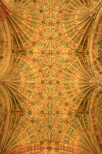 A brief tour of Sherborne Abbey - fan vaulting of the choir (detail)